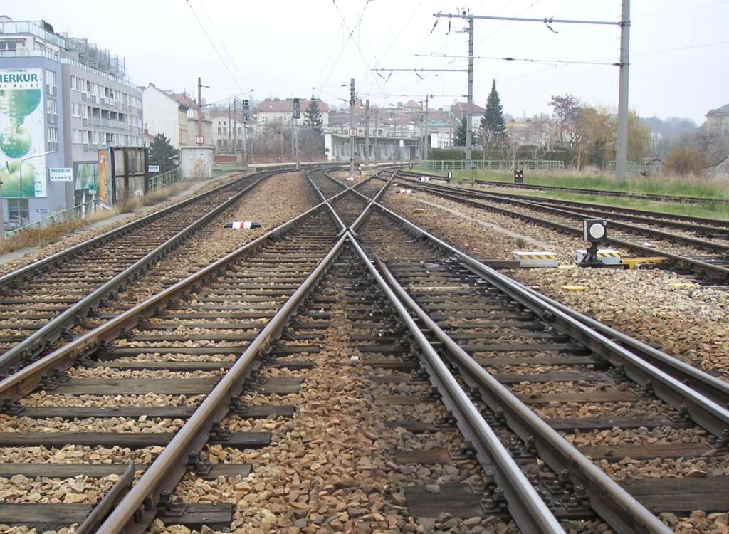 Level junction in Austria